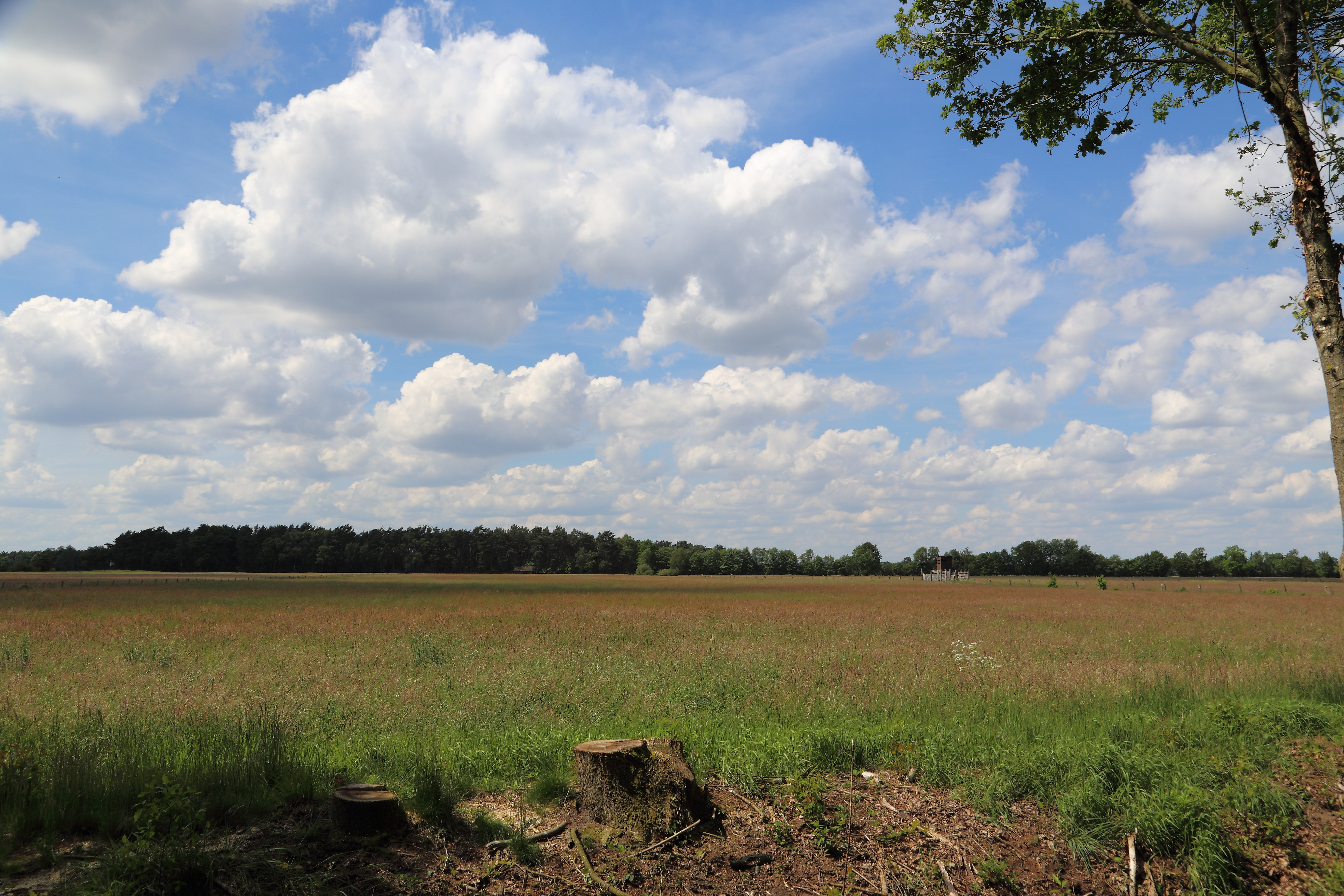 The nature reserve (Naturschutzgebiet/NSG) „Finkenfeld“ in Hopsten-Schale, Kreis Steinfurt, North Rhine-Westphalia, Germany.